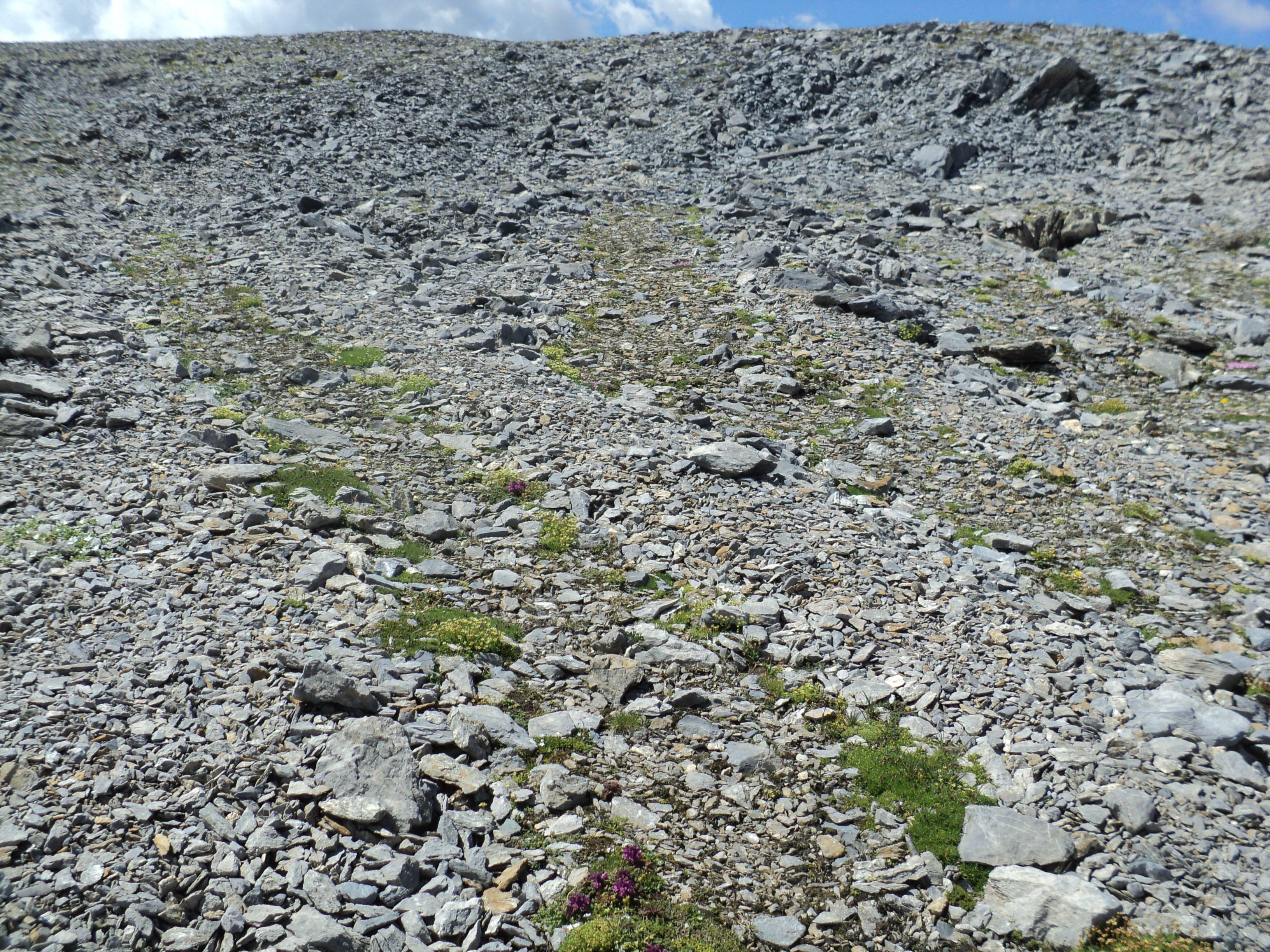 sorted lines indicate frost heaving in small amounts on Cassons - to be found on alpine nature trail also accessible for beginners regarding alpine hike.